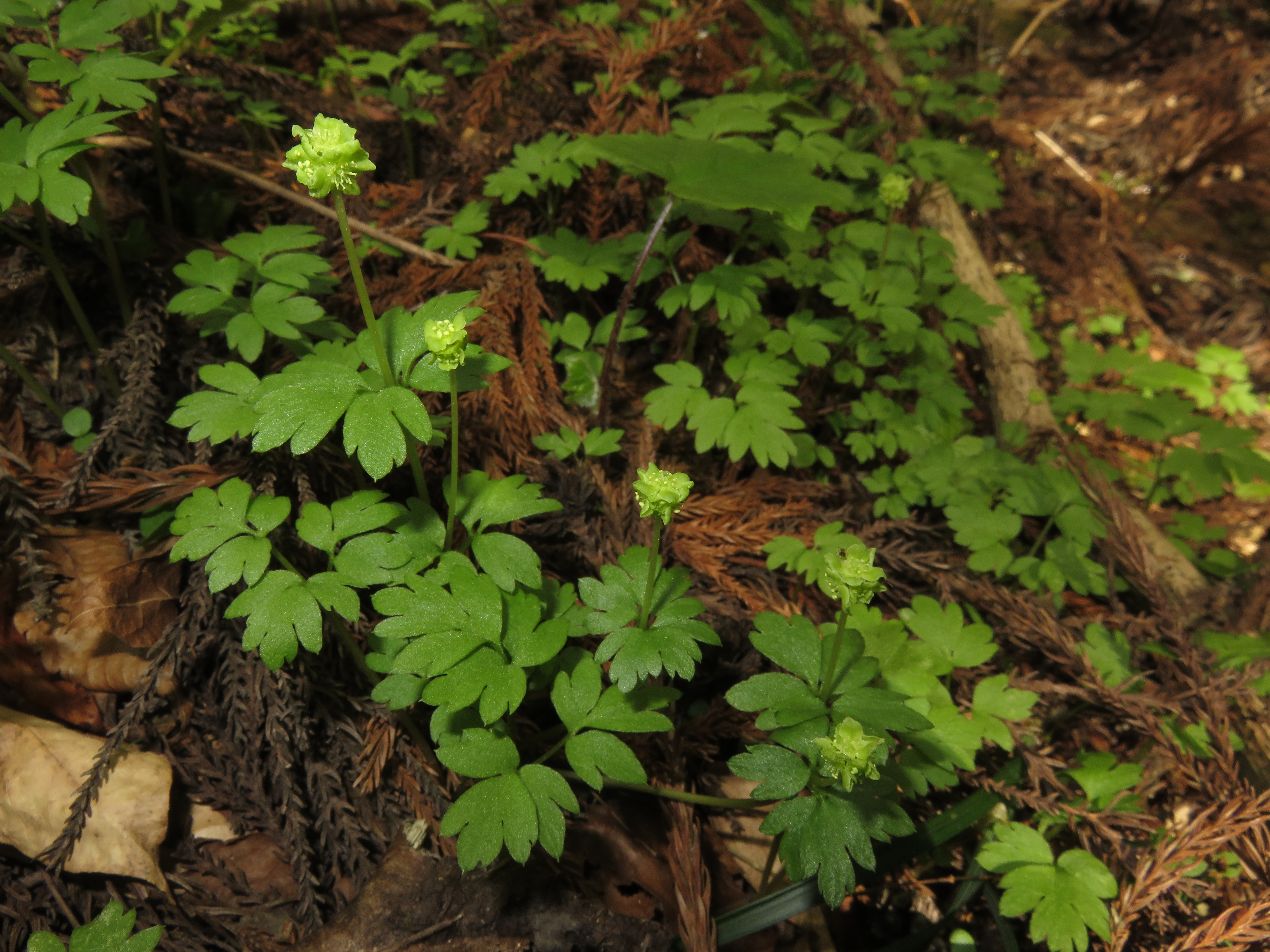 Adoxa moschatellina, East area, Miyagi pref., Japan